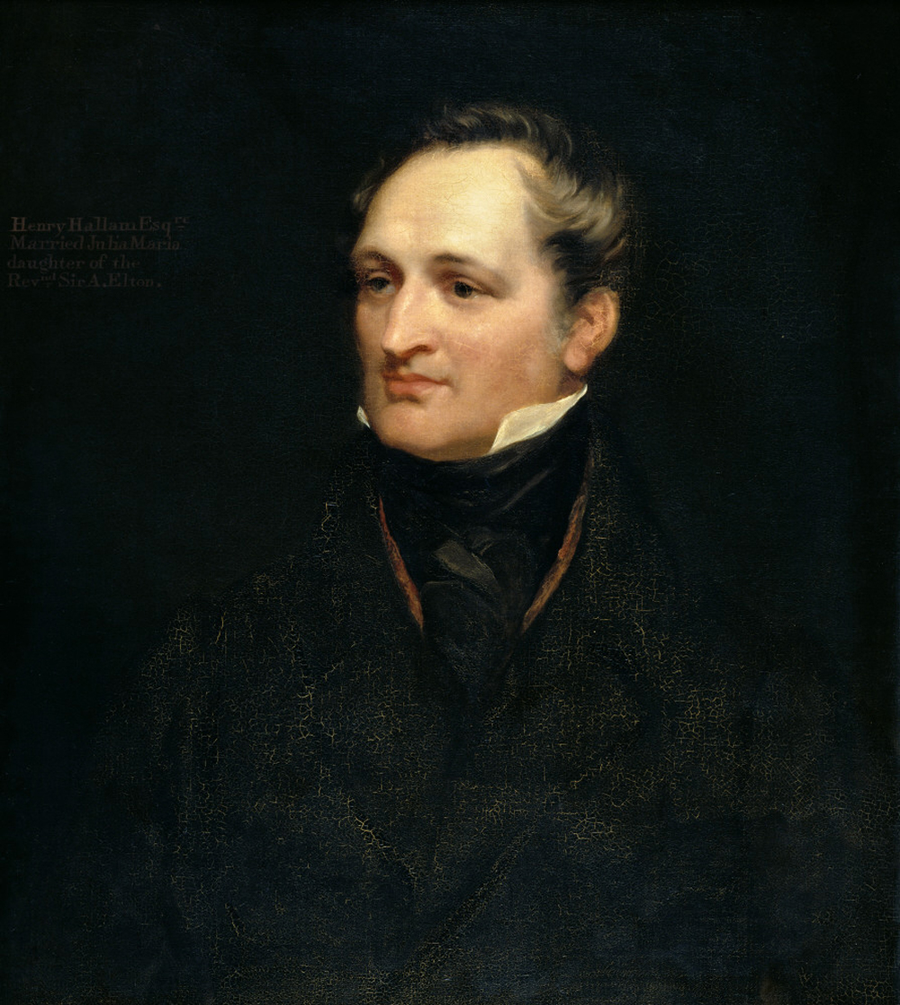 An oil on canvas portrait of the English historian Henry Hallam (9 July 1777 – 21 January 1859).